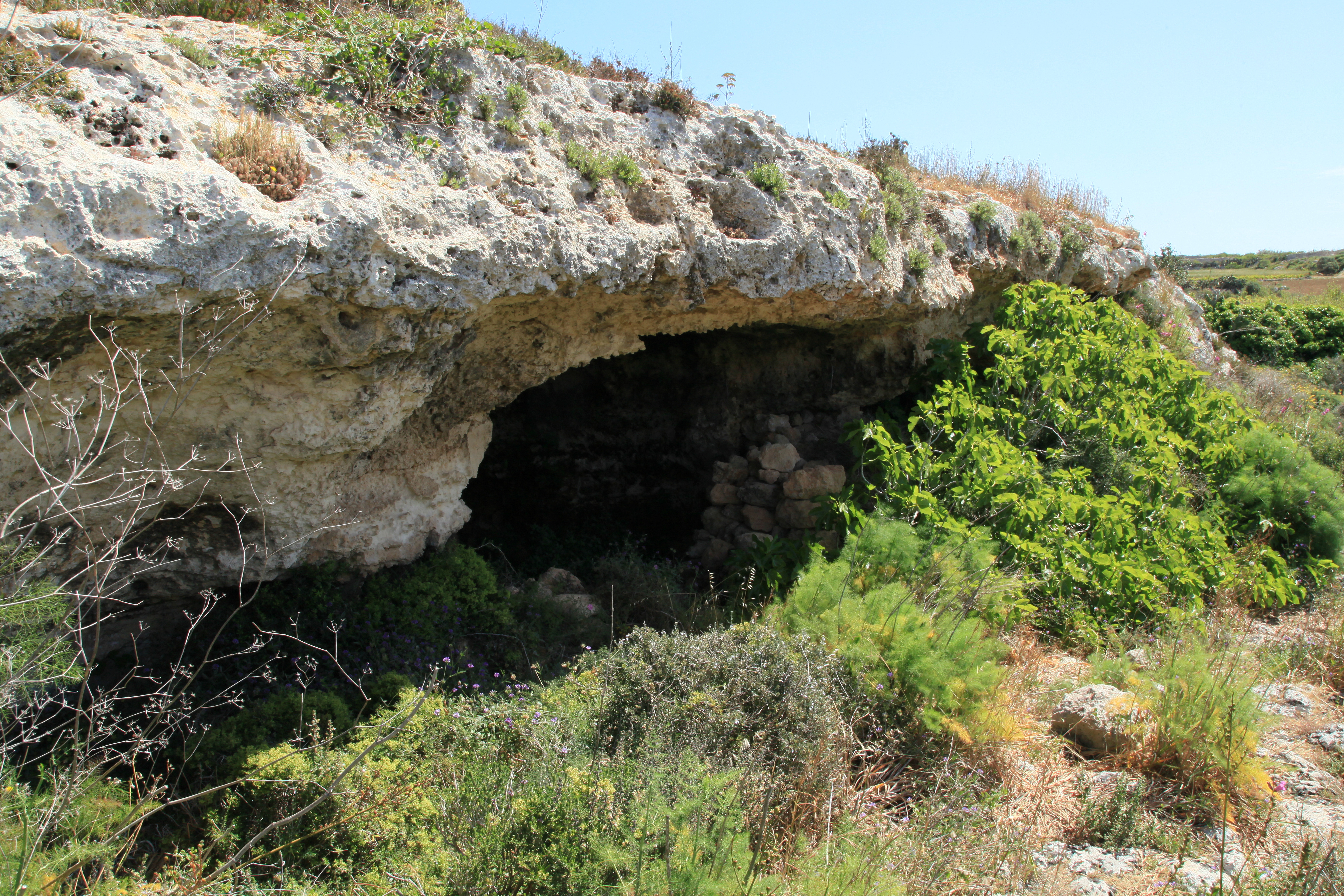 Tombs in the Bingemma Valley, Triq San Pawl tal-Qliegħa in Rabat, Malta